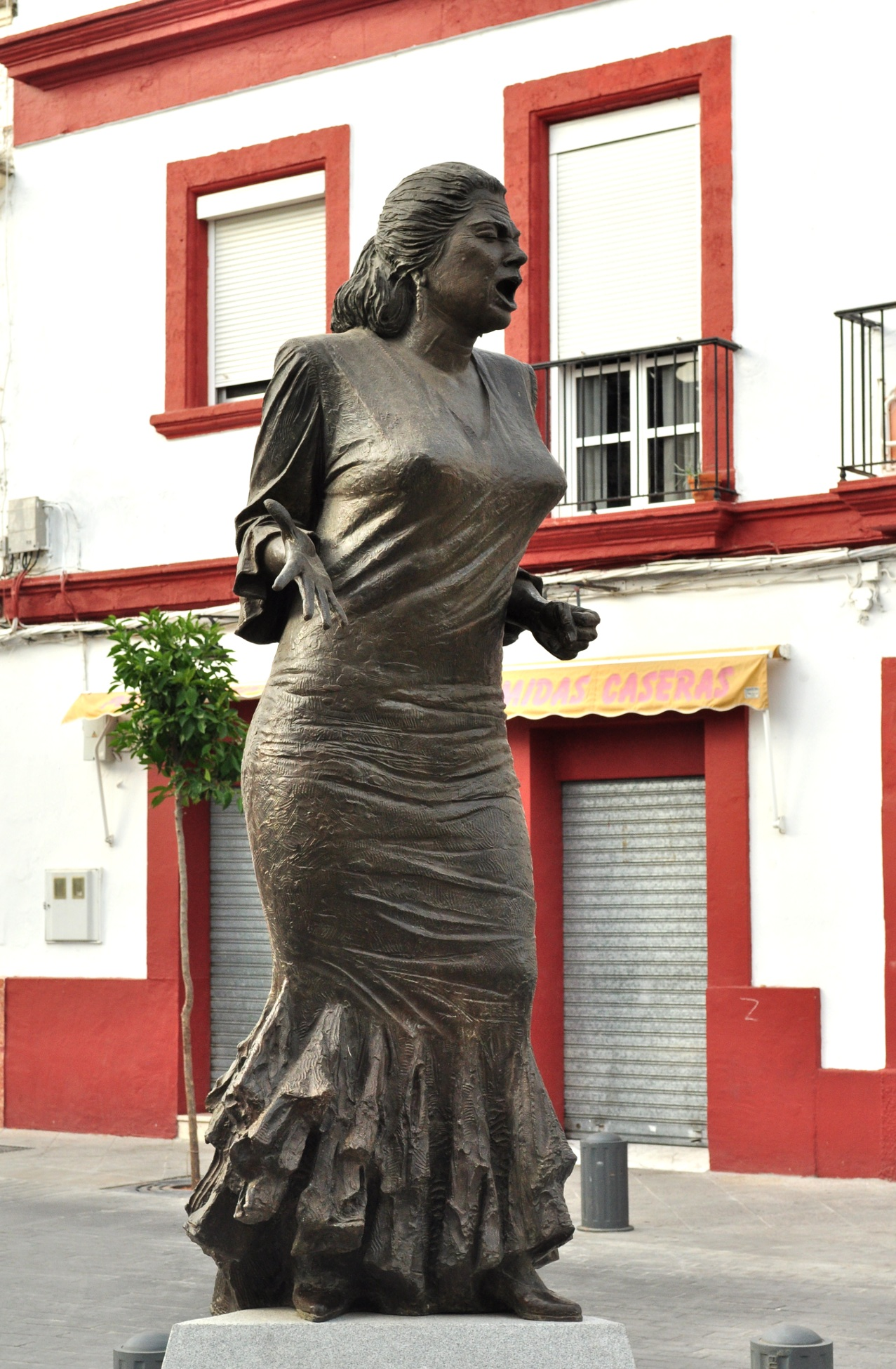 Monument to La Paquera, San Miguel, Jerez